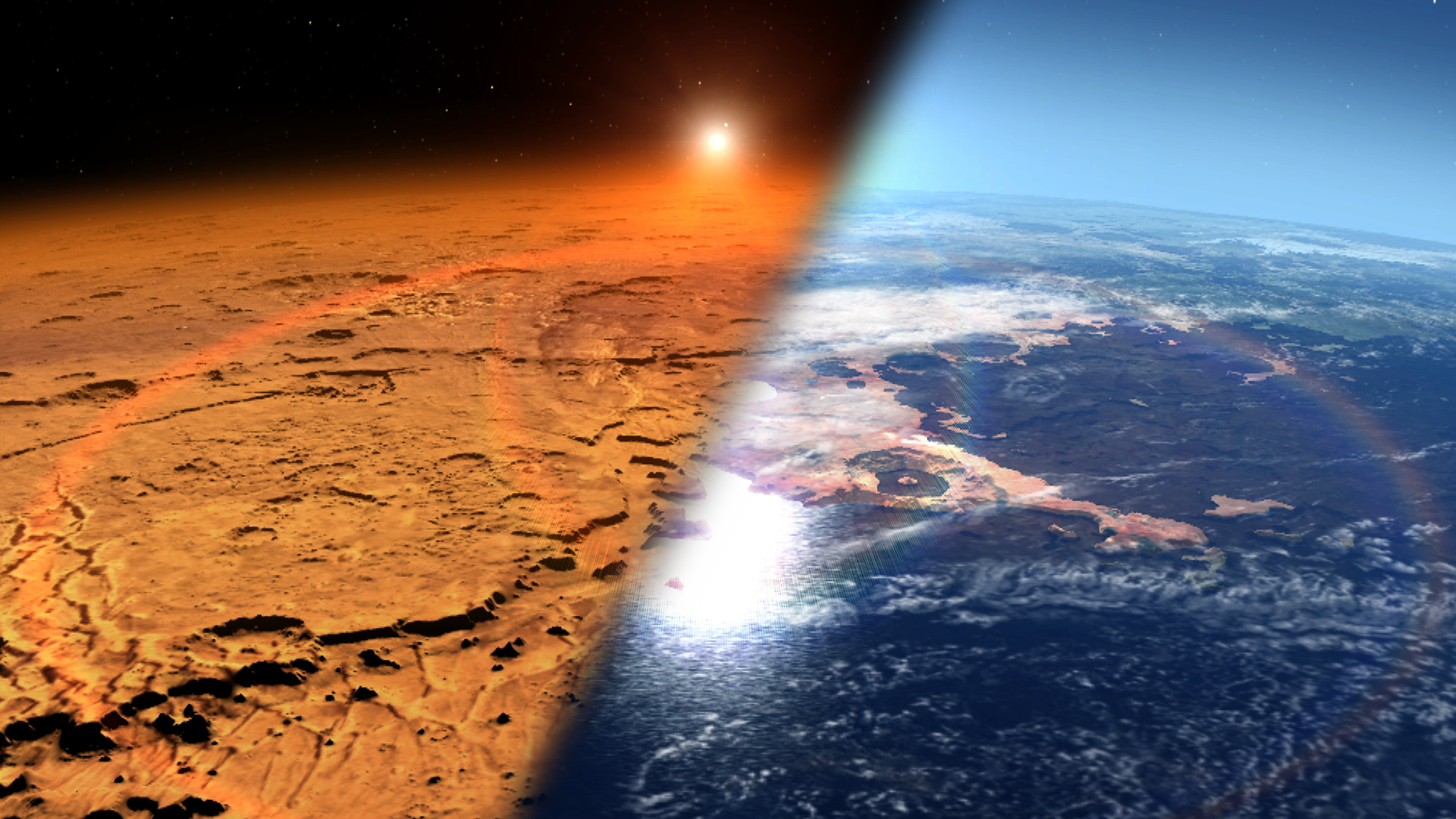 This artist’s concept depicts the early Martian environment (right) – believed to contain liquid water and a thicker atmosphere – versus the cold, dry environment seen at Mars today (left).